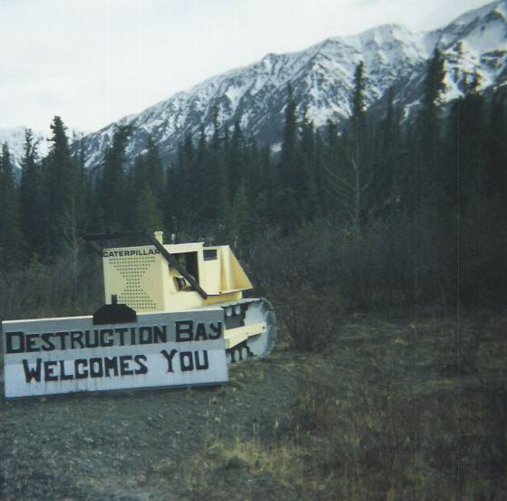 Welcome sign made out of wood and plywood by Charles Eikland Jr. to mimic an old bulldozer, Destruction Bay, Yukon Territory